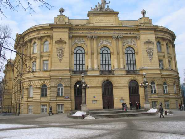 Main building of the Warsaw University of Technology.